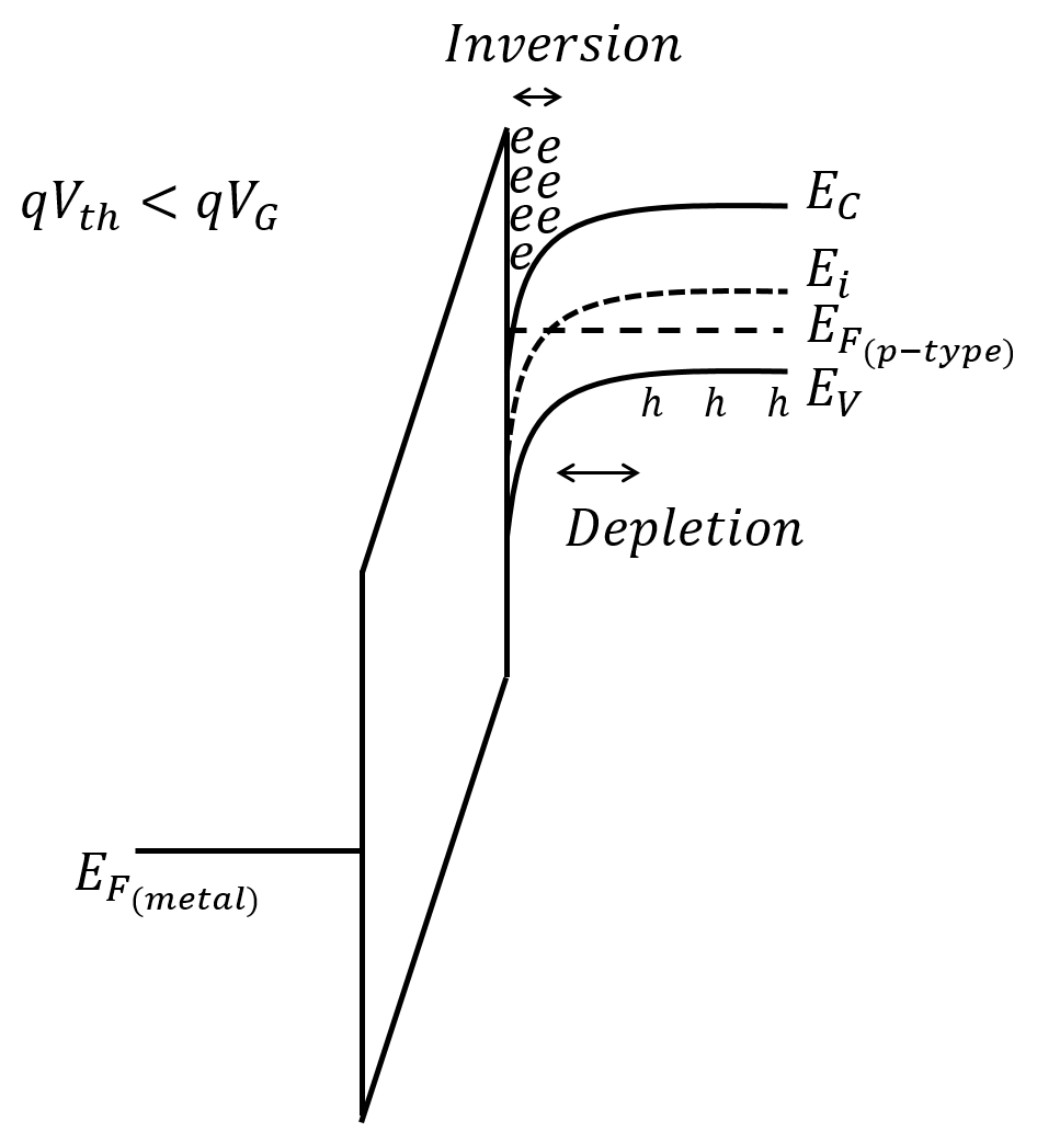 MOS inversion